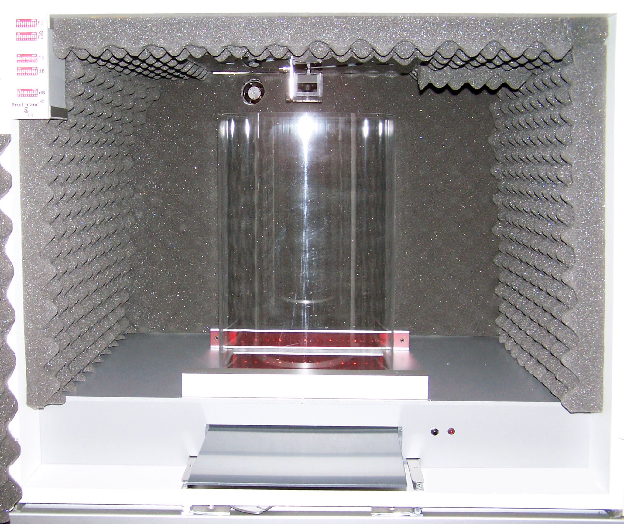 Fear conditioning apparatus for mice equiped with a sound, a foot shock, an activity sensor to measure freezing. Environment context can be changed.